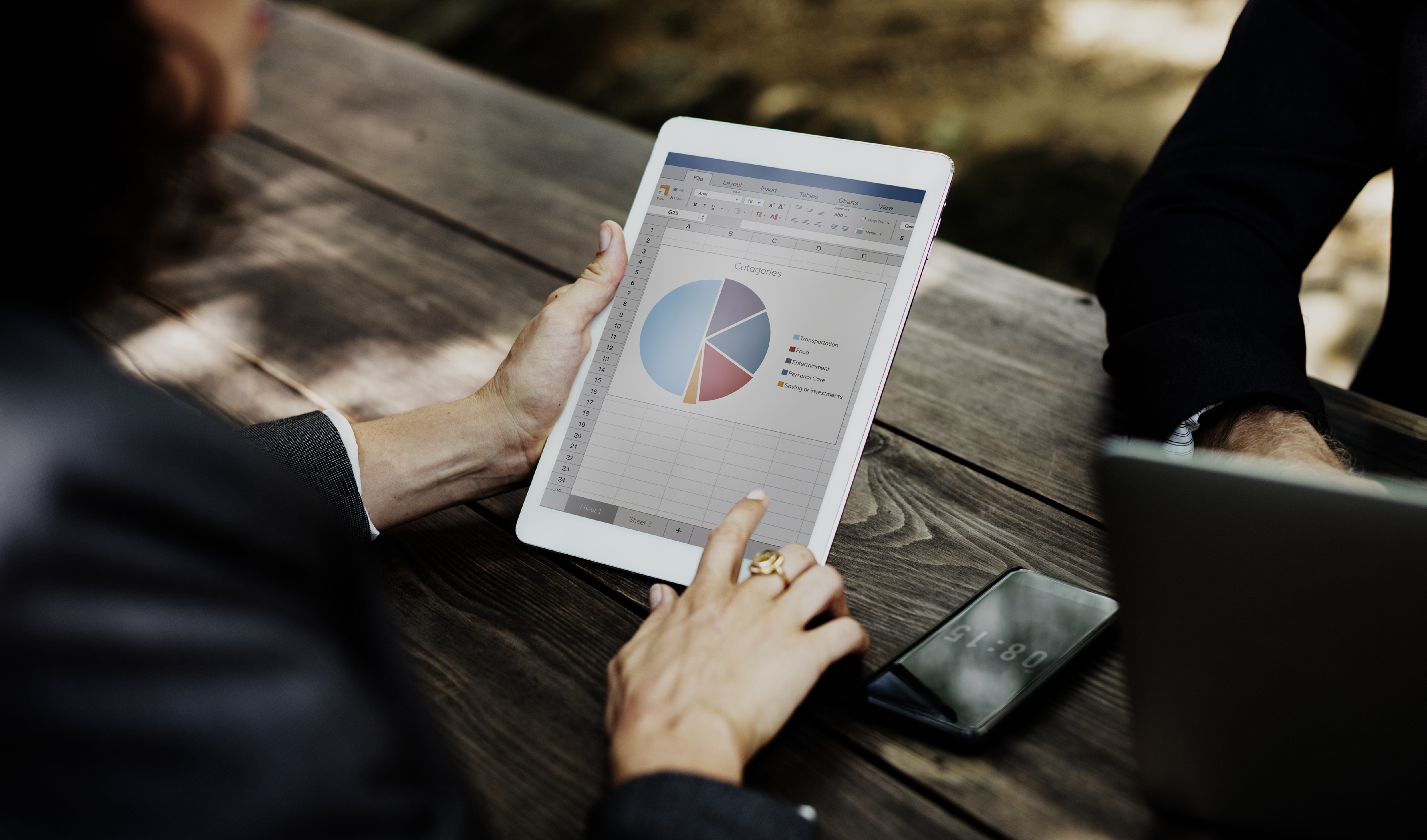 business man with a graph chart on iPad